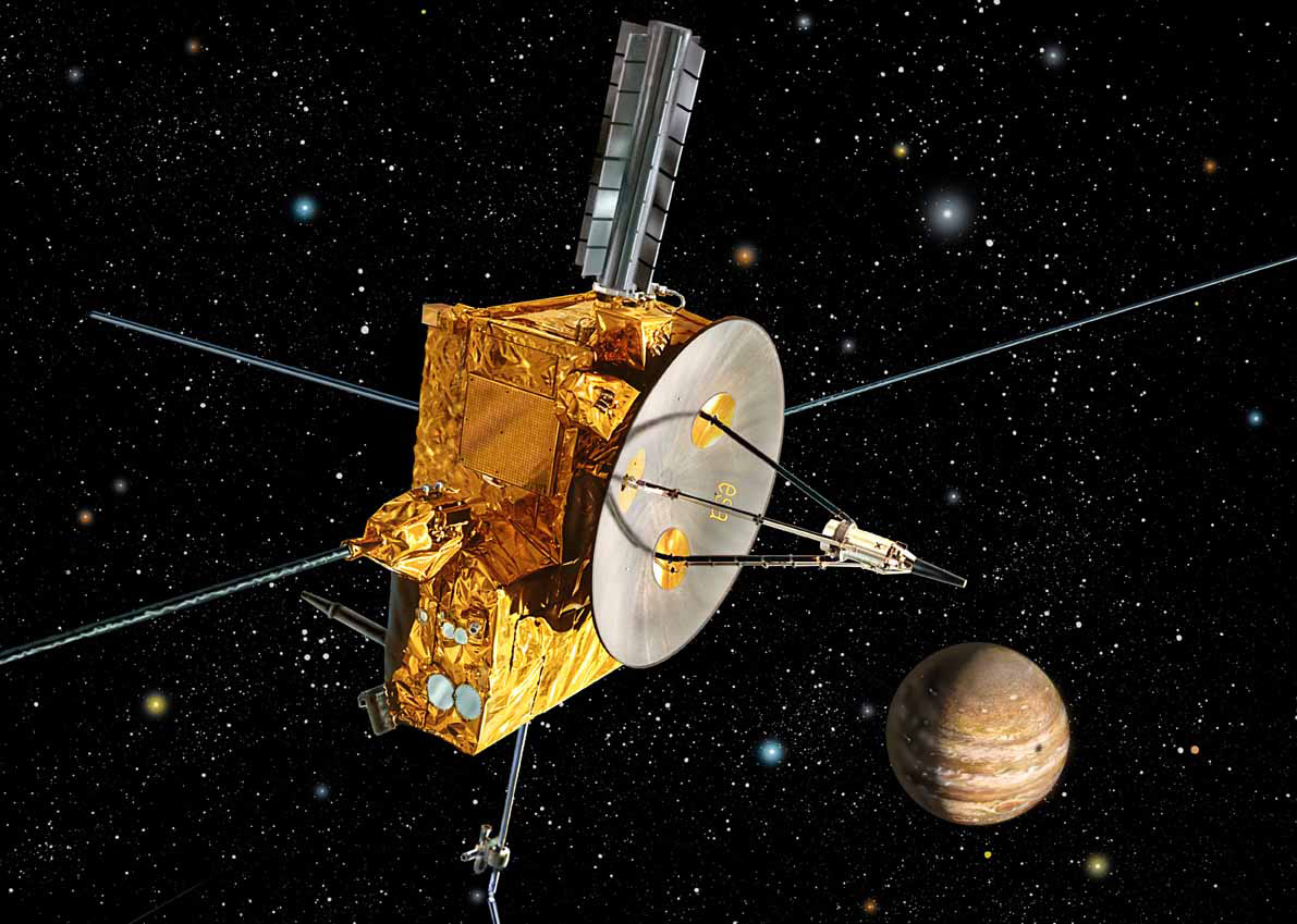 A joint ESA and NASA mission, Ulysses (named after the hero of Greek legend) has charted the reaches of space above and below the poles of the Sun for more than seventeen years. It provided the first-ever map of the heliosphere – the sphere of influence of the Sun – in the four dimensions of space and time. Exploring our star's environment is vital if scientists are to build a complete picture of the Sun, how it works and its effect on the Solar System. In particular, the satellite studied the solar wind that blows non-stop from the Sun and carves out the heliosphere itself, which extends well beyond the outer limits of the Solar System. Ulysses was equipped with a comprehensive range of scientific instruments to detect and measure solar wind ions and electrons, magnetic fields, energetic particles, cosmic rays, natural radio and plasma waves, cosmic dust, neutral interstellar gas, solar X-rays and cosmic Gamma Ray Bursts. Ulysses was launched by Space Shuttle Discovery in October 1990. It headed out to Jupiter, arriving in February 1992 for the gravity-assist manoeuvre that swung the craft into its unique solar orbit. It orbited the Sun three times and performed six polar passes. The mission concludes on 1 July 2008.